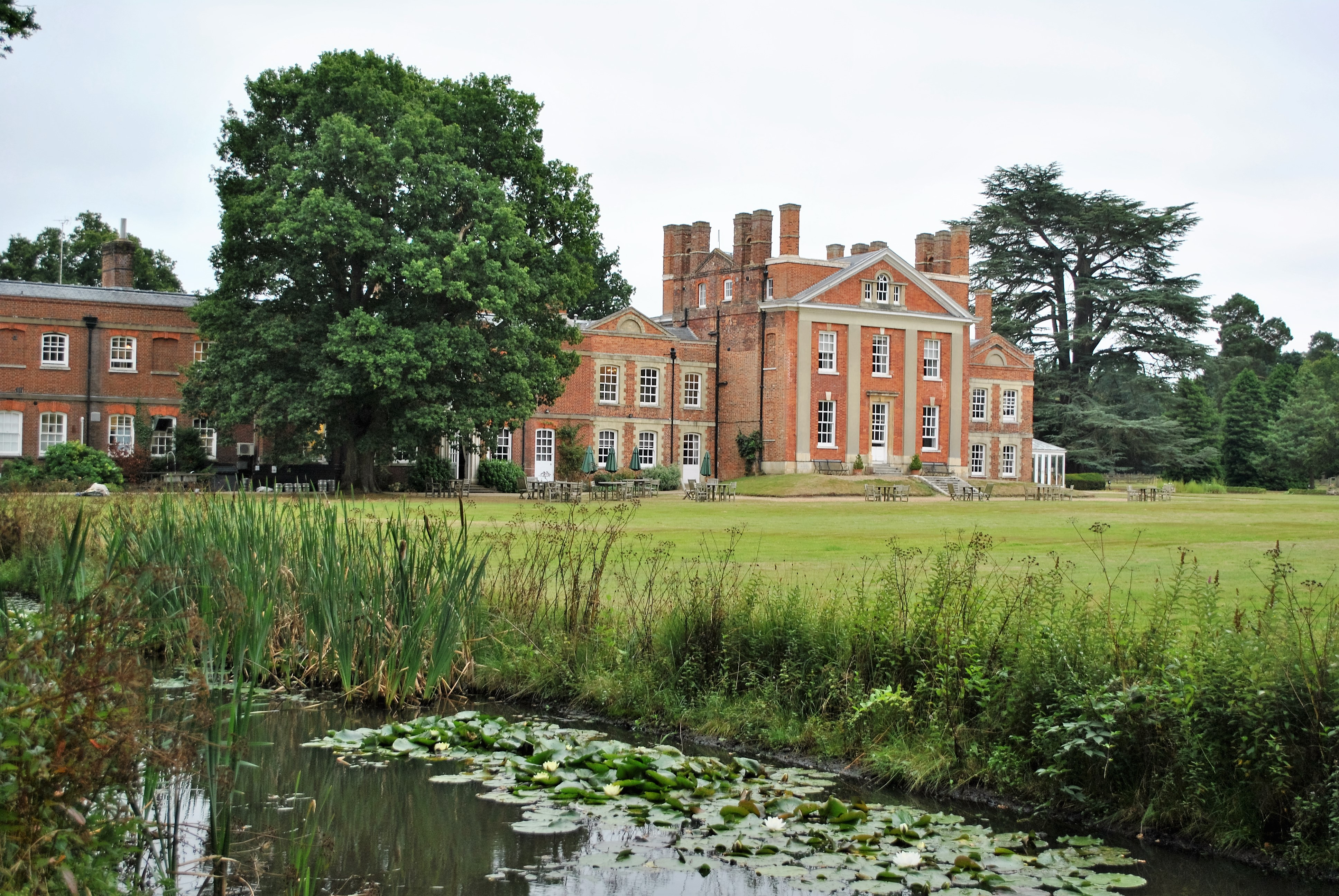 Image originally published in Queer Places: Retracing the Steps of LGBTQ people around the World Authored by Elisa Rolle